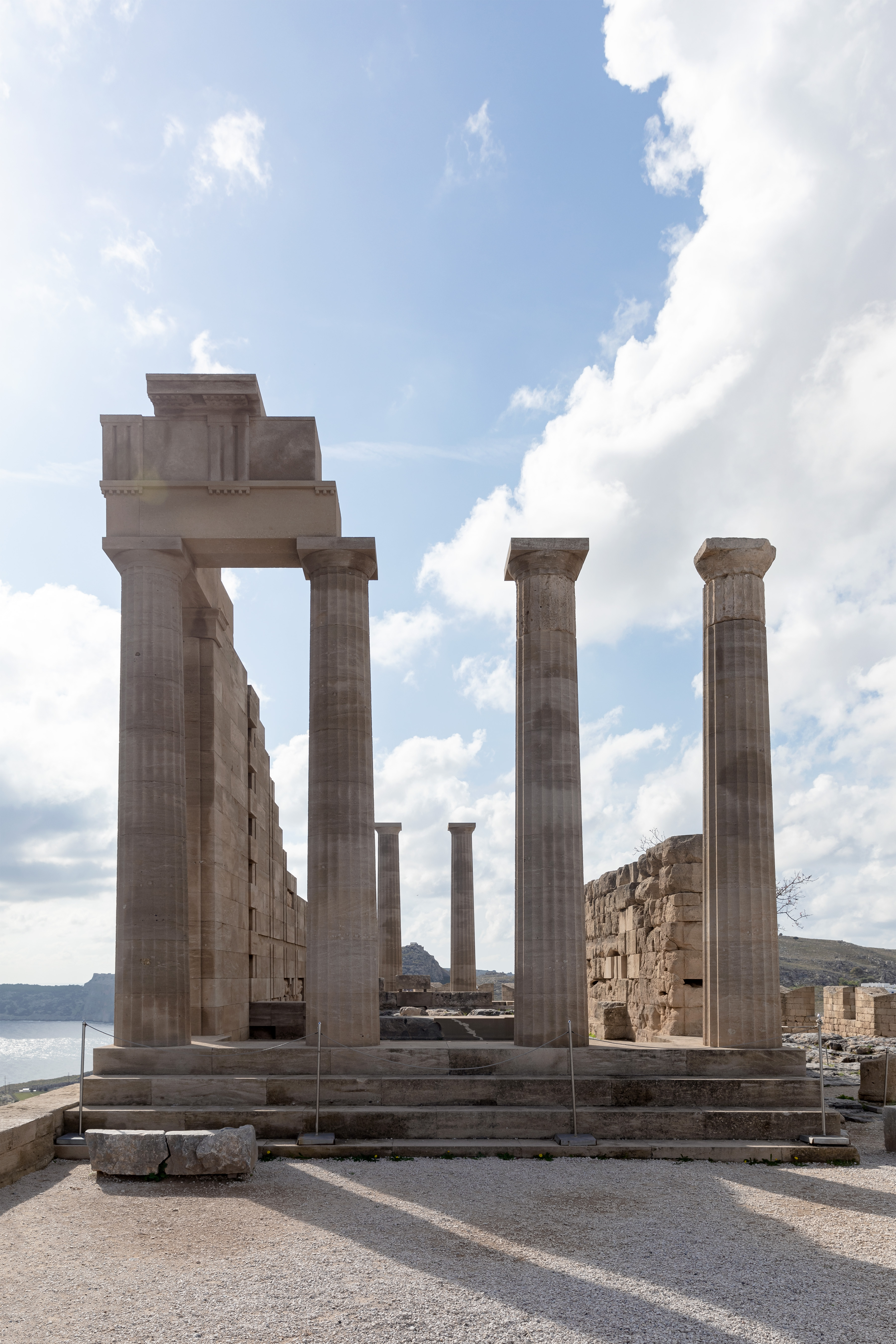 Acropolis of Lindos (Lindos, Rhodes, Greece).